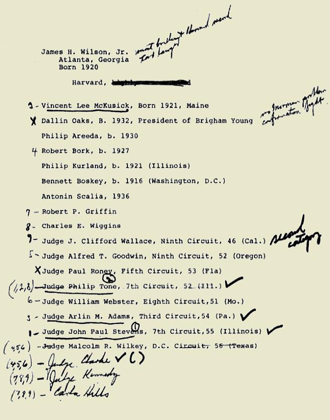 This is a list of potential nominees to the United States Supreme Court drawn up by Attorney General Levi and annotated and amended by President Gerald R. Ford. This is an official U.S. government document, with contributions by both authors made in their official capacity as federal employees.